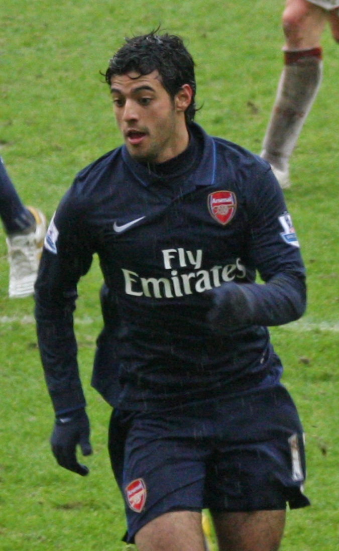 Carlos Vela. Image cropped from original at flickr.